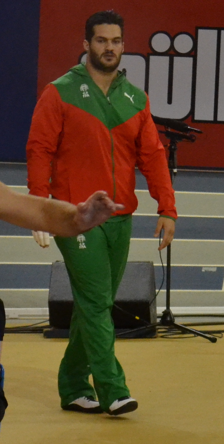 Mens Shot Put